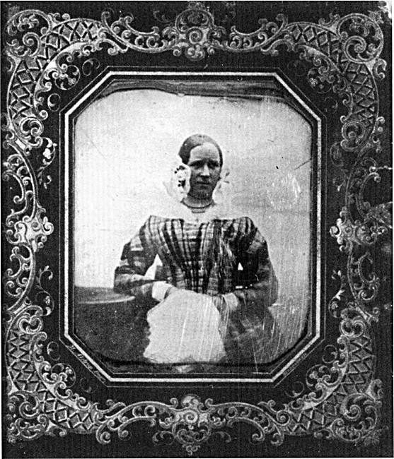 This portrait is an early daguerreotype taken in 1845 by Mads Alstrup in Denmark.